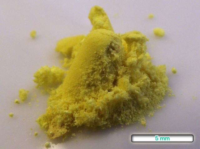 Photo of Nifedipine, pure